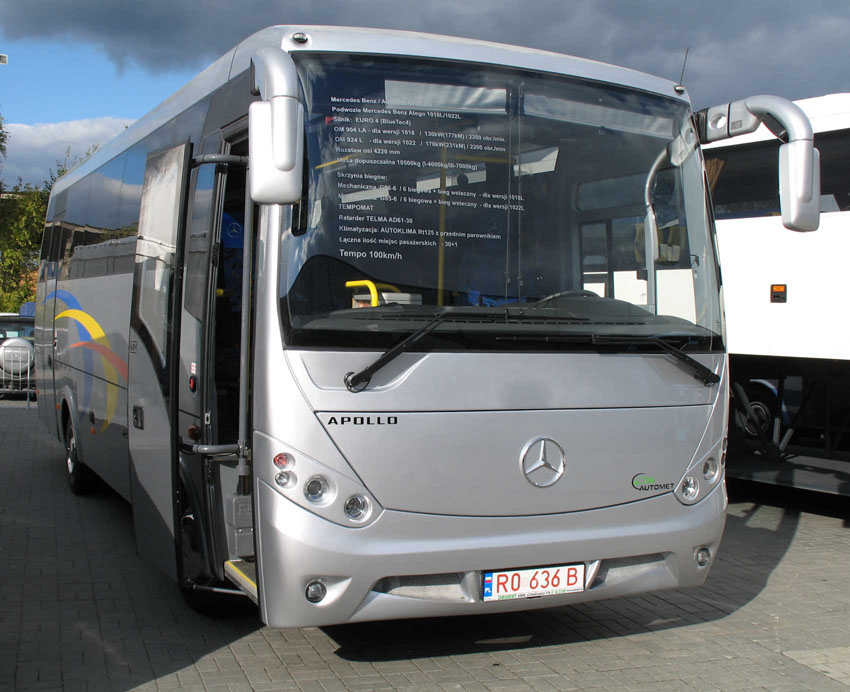 Automet Apollo bus in Kielce, Poland, Transexpo 2007 exhibition. Base on Mercedes-Benz 970.24 chassis. Built 2007. Made by in Sanok, Poland.